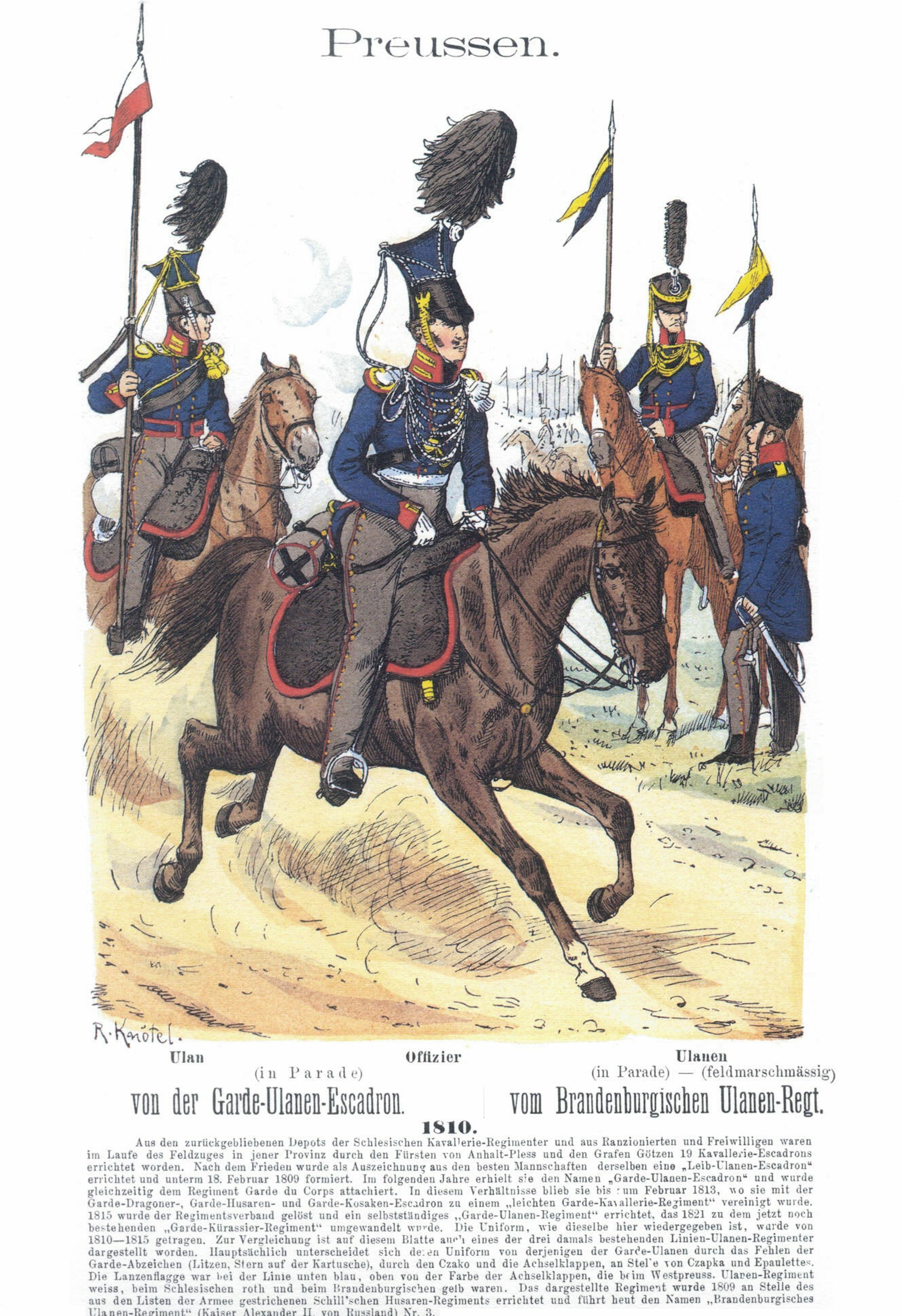 Preußen. Garde-Ulanen-Eskadron. Brandenburgisches Ulanen-Regiment. 1810